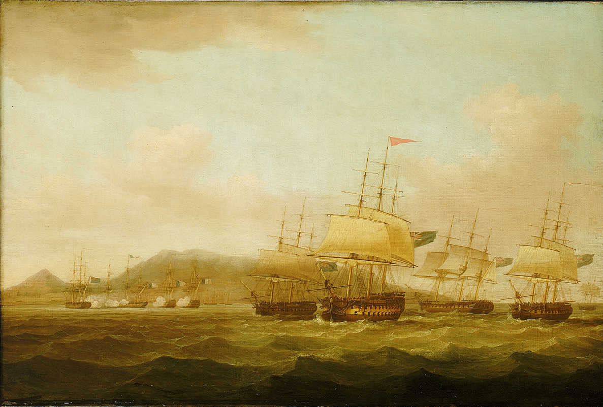 The capture of Saint Paul near the Isle de Bourbon, 21 September 1809 Right of centre is the Reasonable with the Otter to starboard of her. A frigate is astern of her on the opposite tack while a second is in the right of the picture, followed by the schooner. In the left background is the bay of St Paul with the French shipping at anchor, including the two captured Indiamen and the frigate Caroline which shown in action with the Sirius. Across the background is the island of Reunion, formerly called Bourbon.